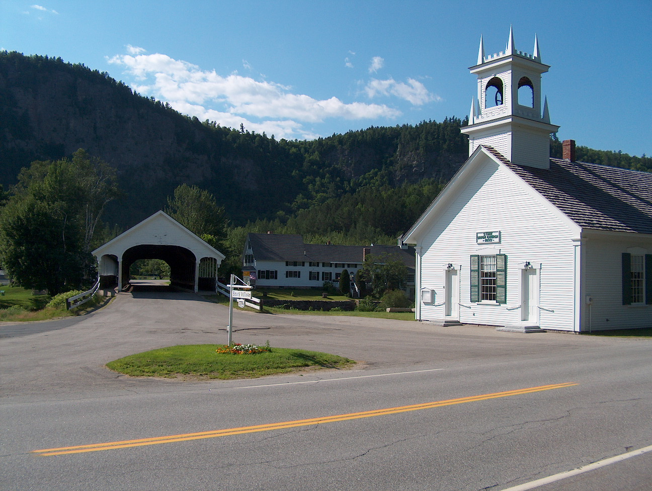 The center of the town of Stark.